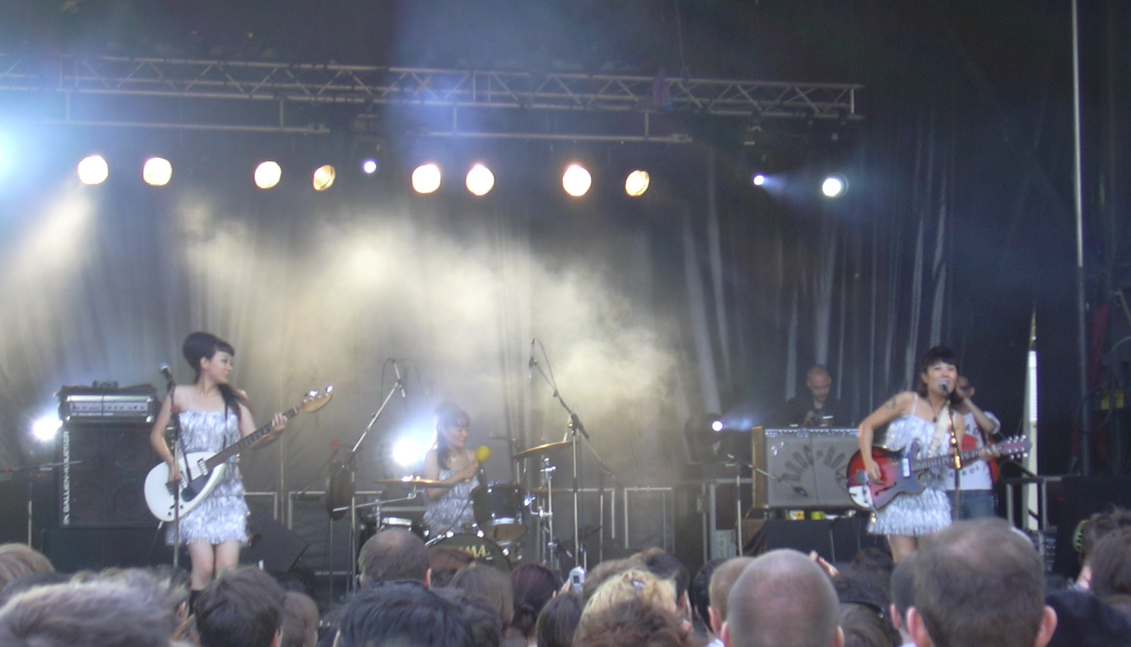 The 5.6.7.8's in concert in Lille (France), May 2004. Photo taken in the course of the festival "Lille 2004 - European Capital of Culture".